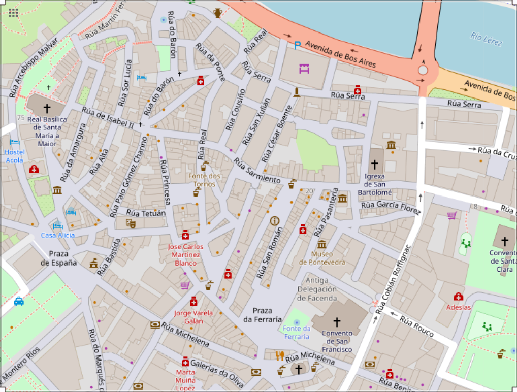 Geographic limits of the map: N: 42.43501° S: 42.43051° W: -8.64829° E: -8.64024°